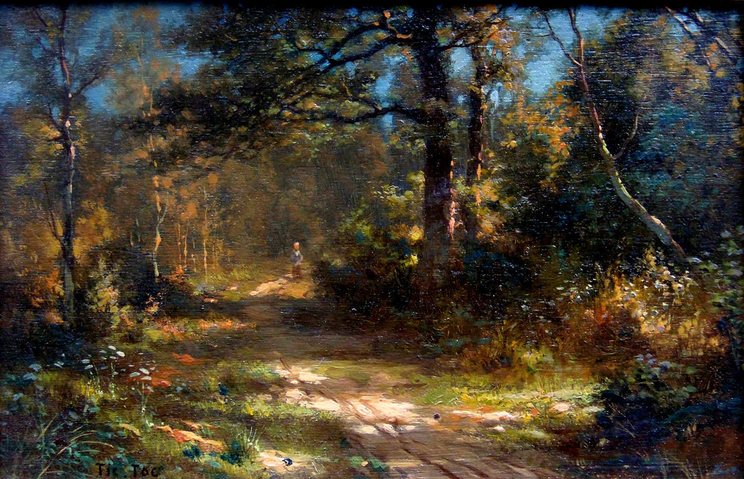 Paysage - a painting by my great grandfather Carbonnel